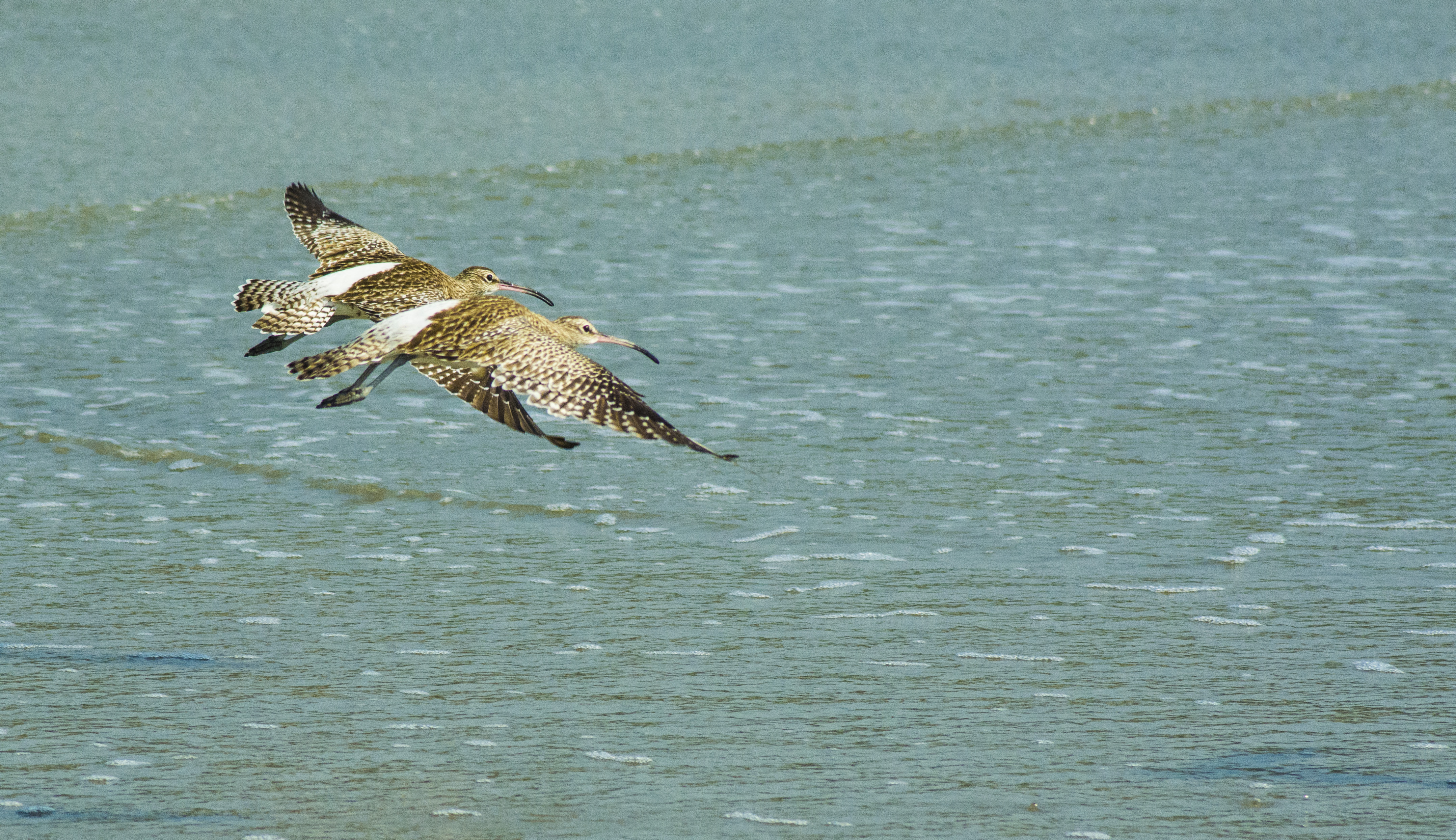 The whimbrel (Numenius phaeopus) is a wader in the large family Scolopacidae